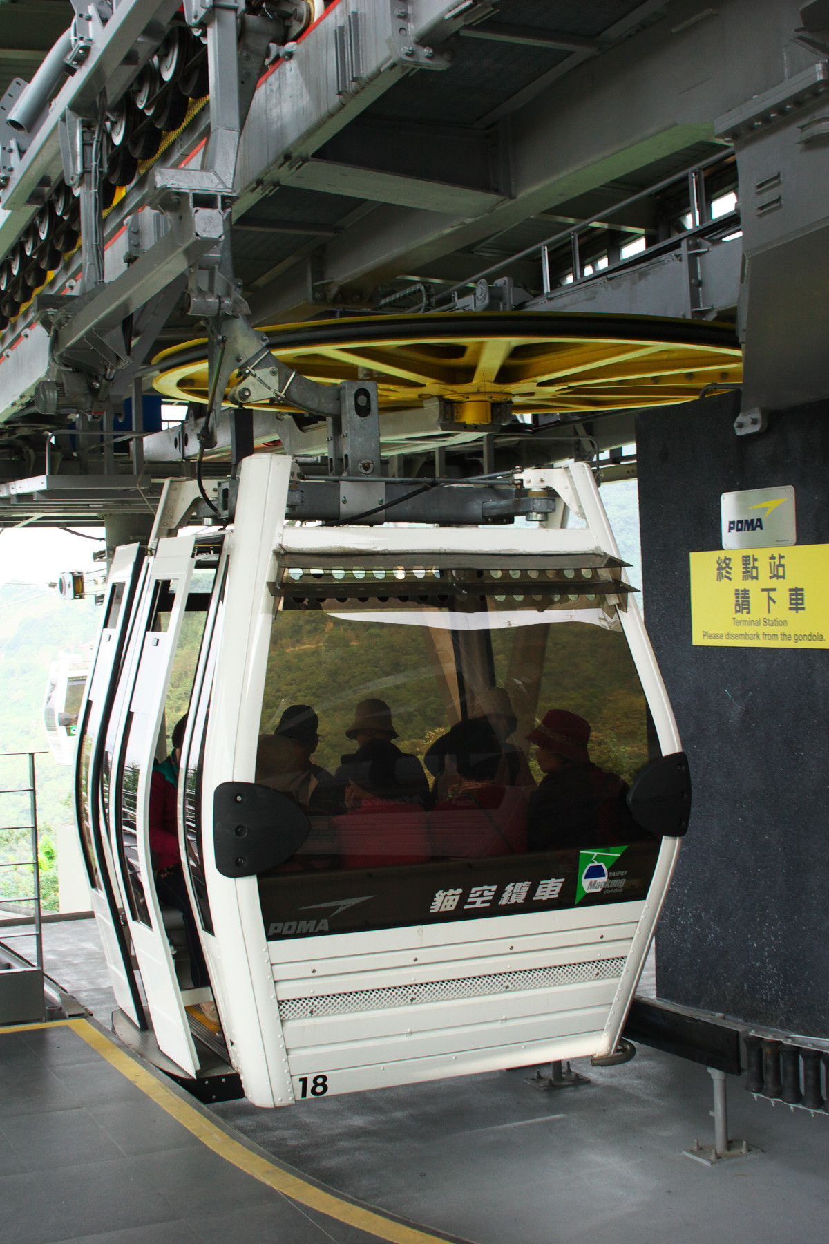 Maokong Gondola Maokong station'